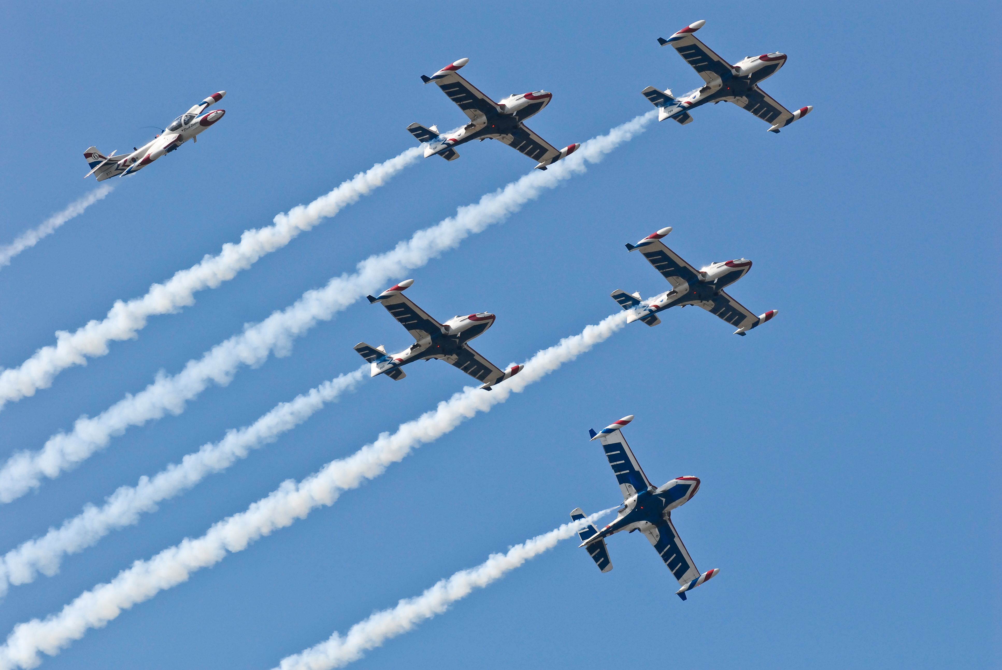 Black Eagles aerobatic team of the Republic of Korean Air Force, 21 october 2007